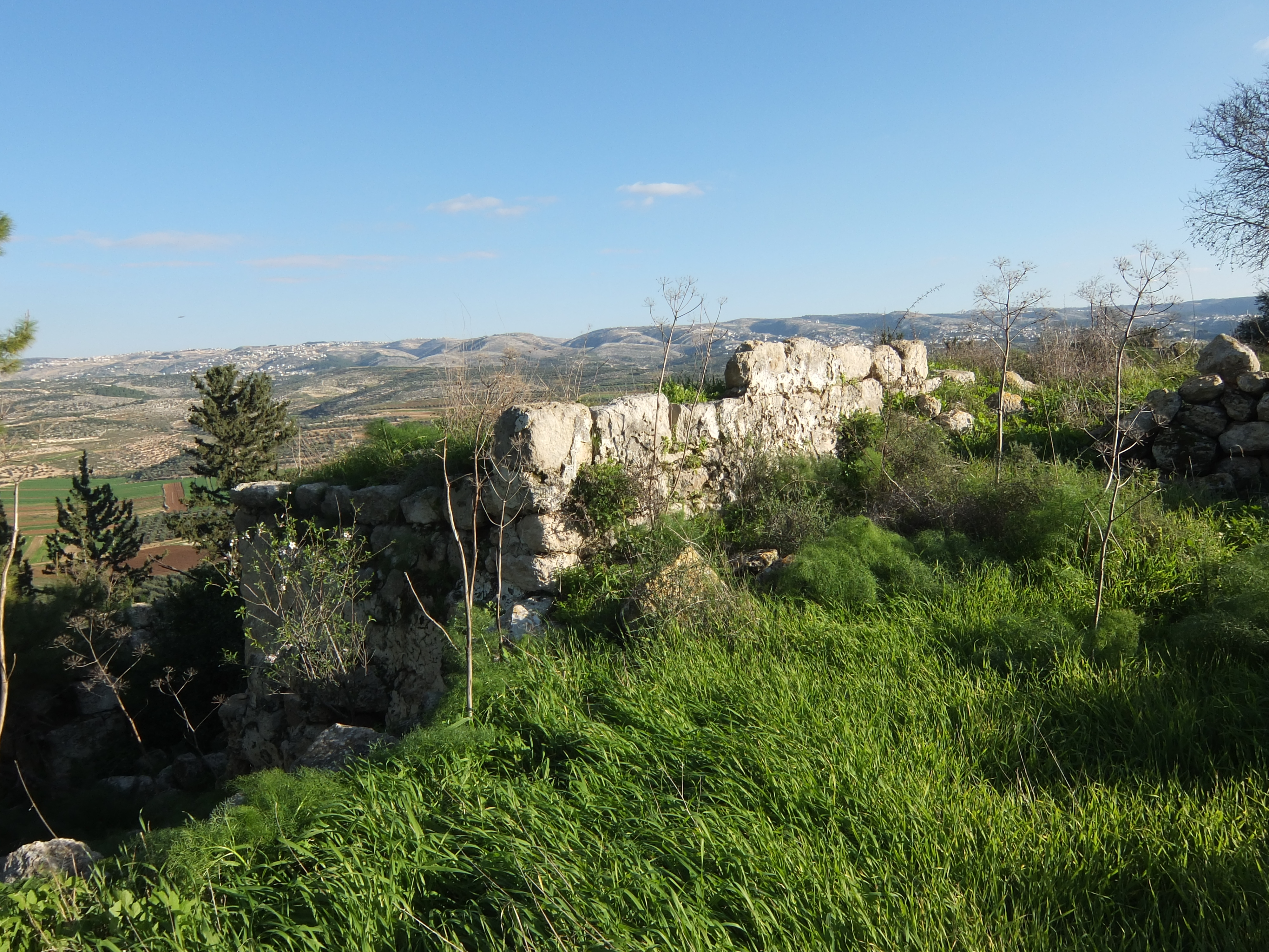 Old stone structure from the ruin of Adullam, above the Elah Valley (Israel), December 2014